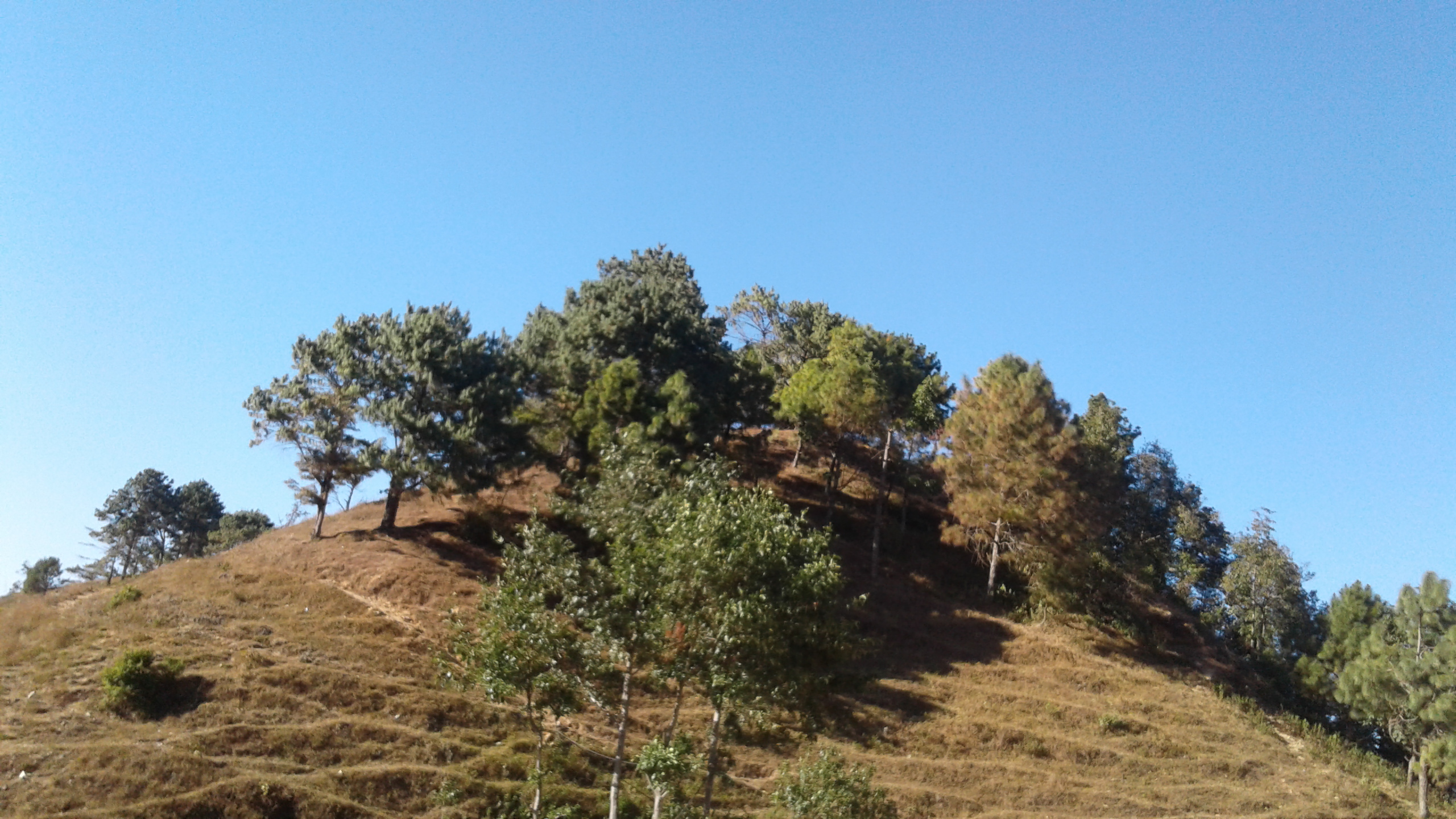 Okhaldhunga Bazaar Entrance point, Sagarmatha Highway, pictured on December 09, 2016 14:30:59